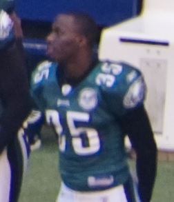 Philadelphia Eagles players watch a pregame flag raising ceremony before an away game vs Dallas Cowboys.